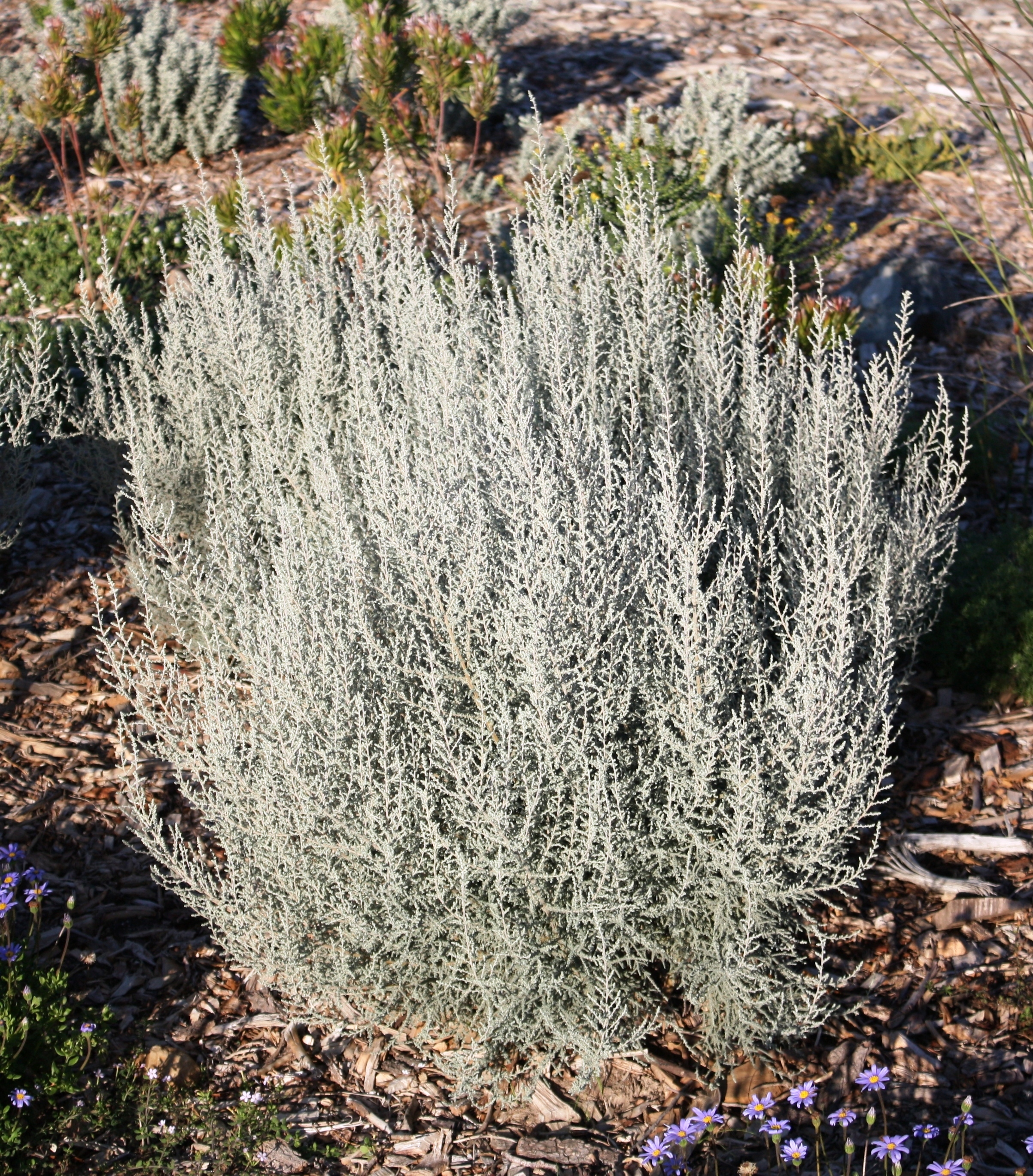 Slangbos. Indigenous South African garden plant. Cape Town fynbos garden.